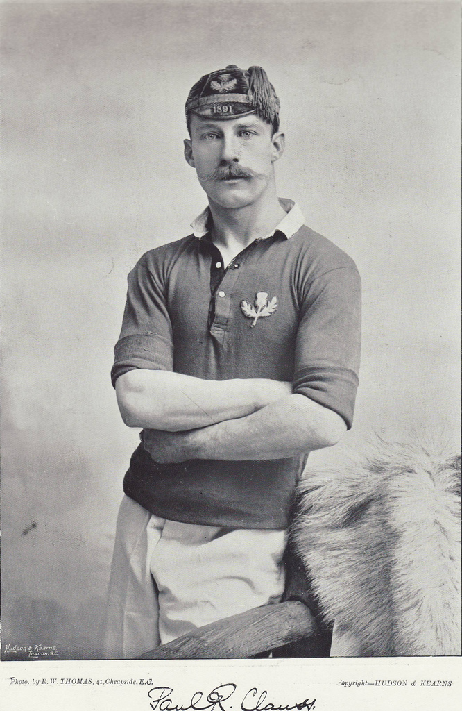 Portrait of Paul Robert Clauss, a Scotland international rugby union player.